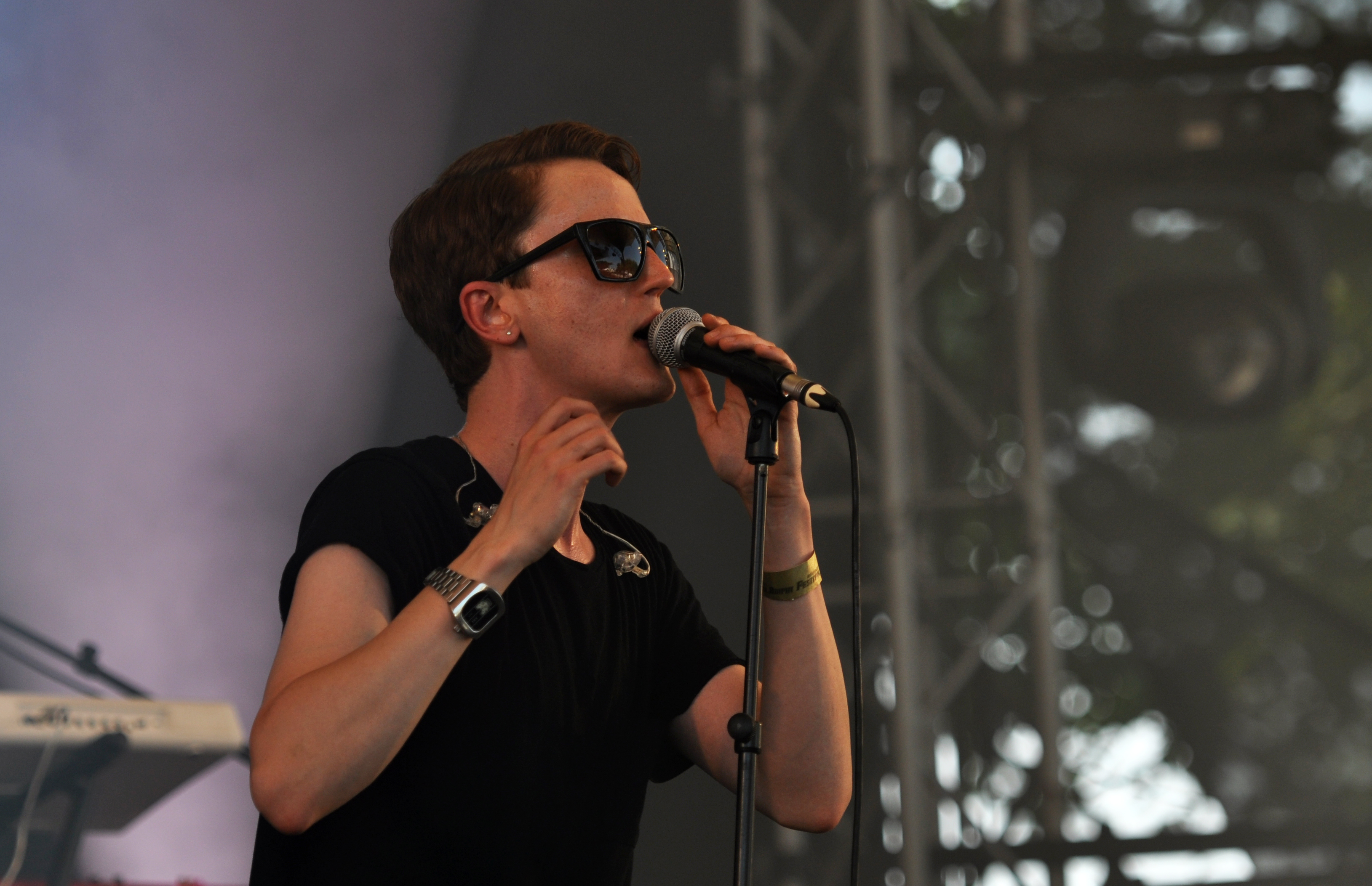 Ben Ivory at the Amphi Festival 2013, Cologne, Germany